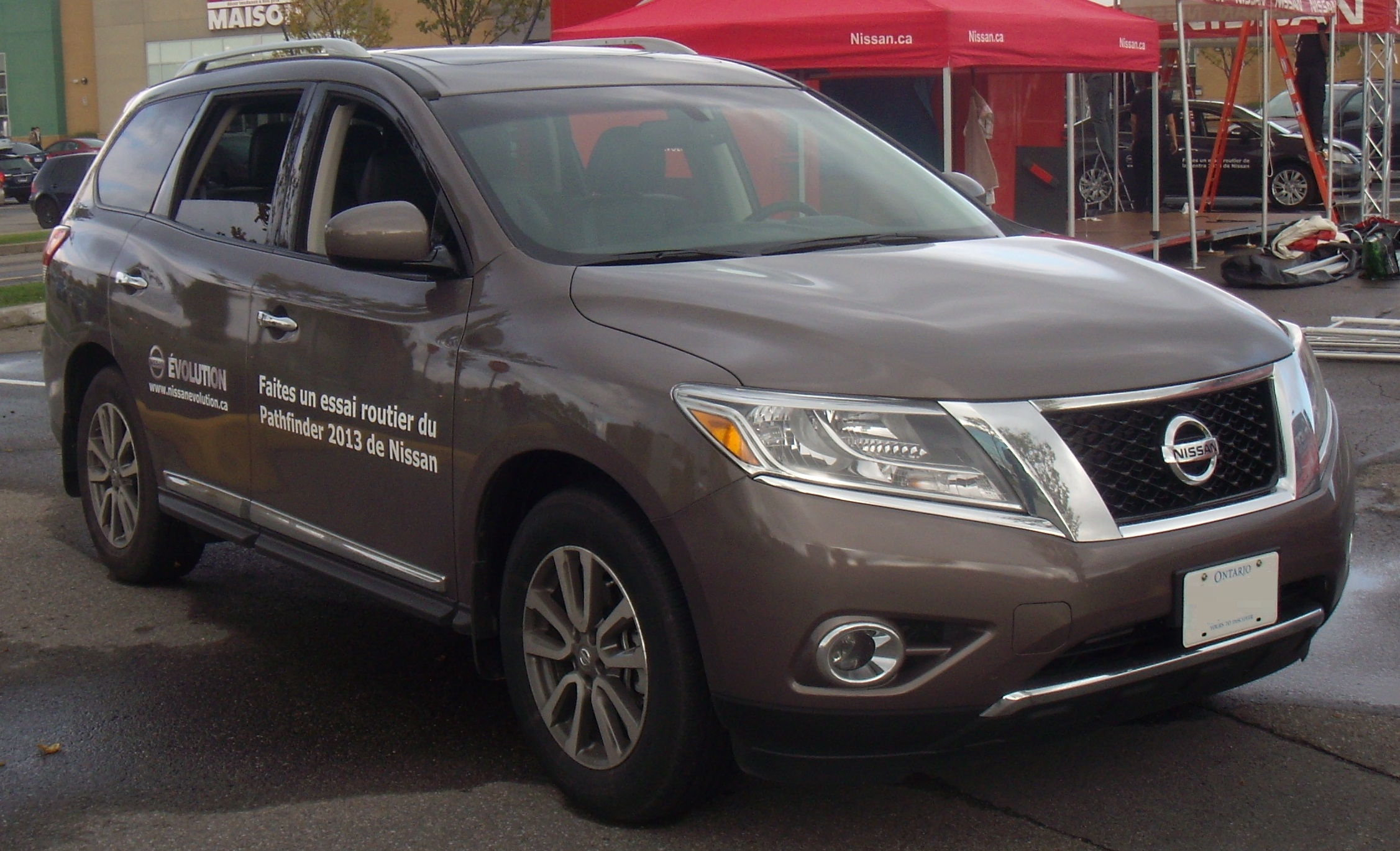 2013 Nissan Pathfinder photographed in Montreal, Quebec, Canada courtesy a Nissan exposition at the Marché Central strip mall.